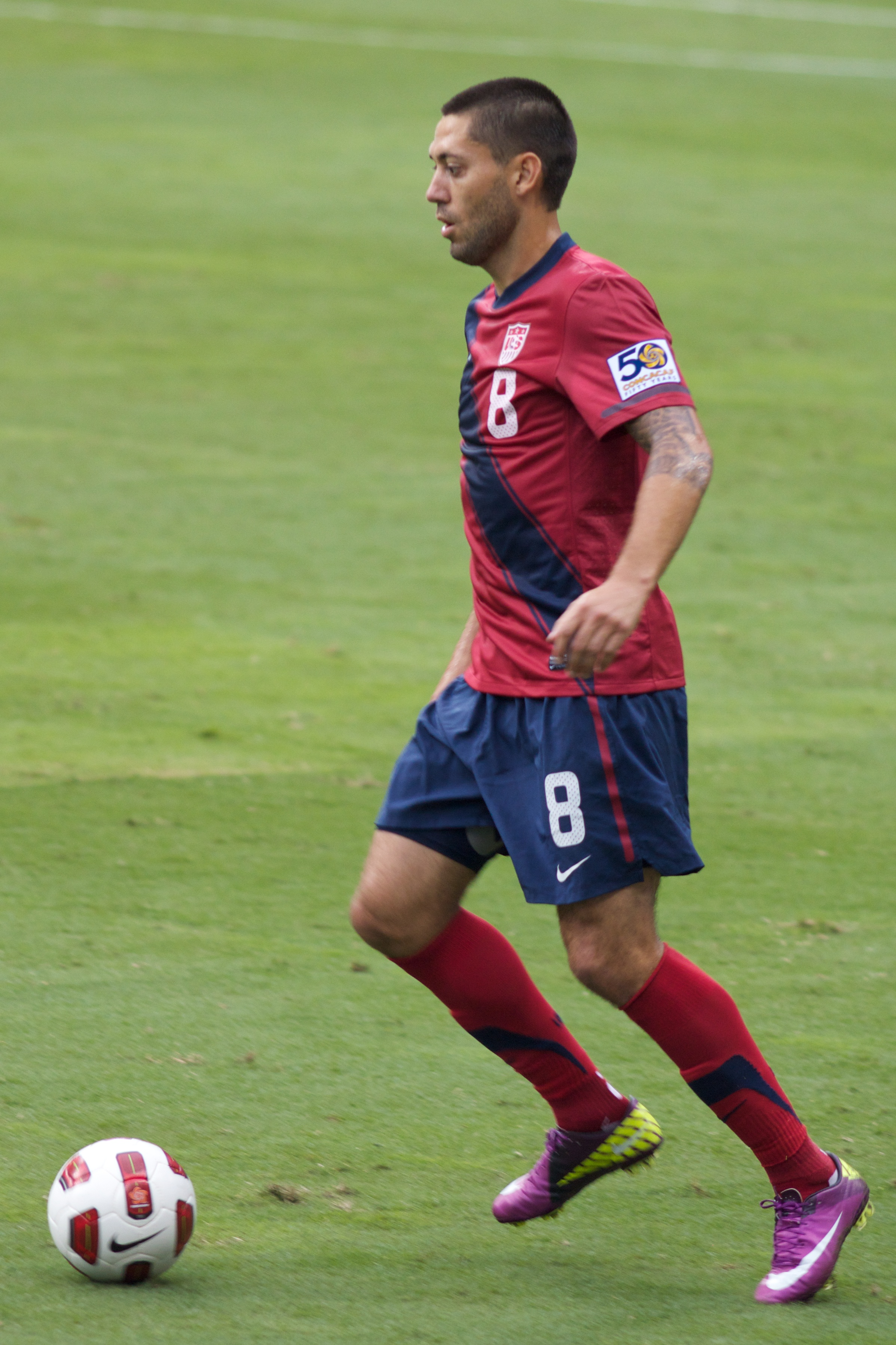 Clint Dempsey representing the US soccer team at the 2011 Gold Cup semi-final match in Houston Texas on June 22, 2011.